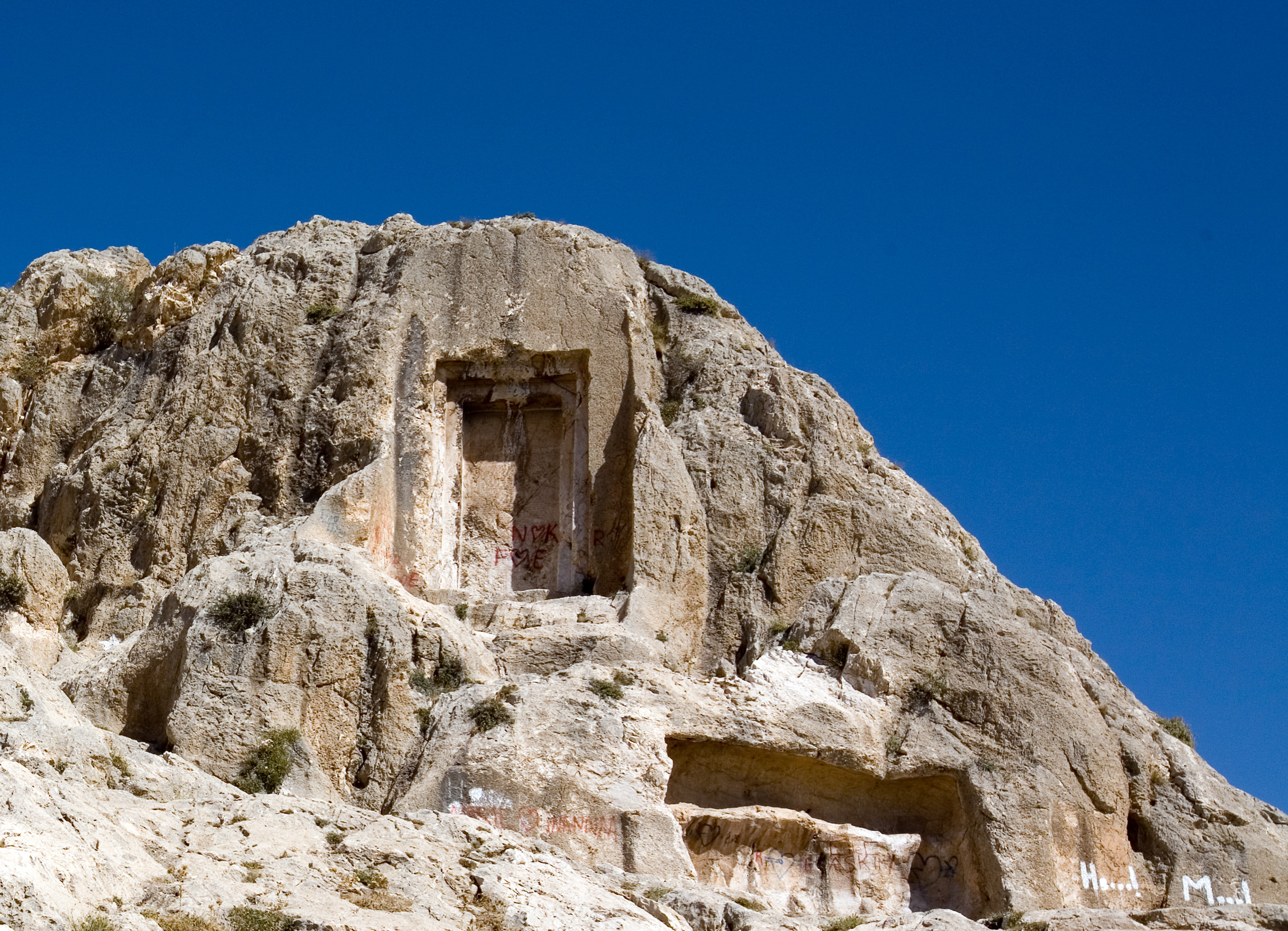 Urartian sacred place